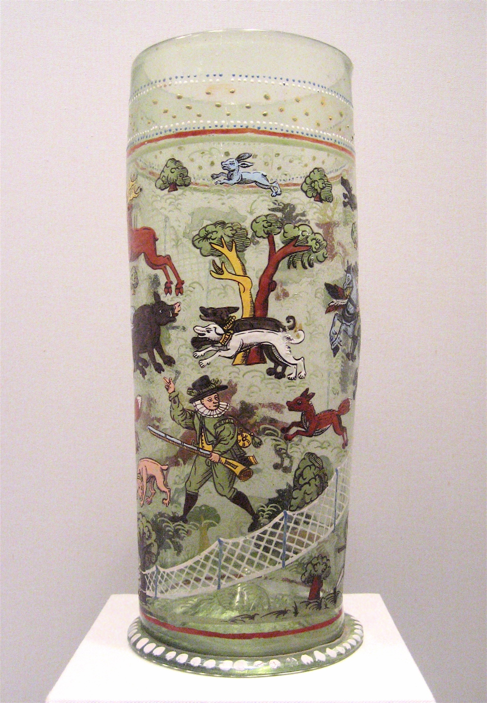 Bohemia or Germany, possibly Hesse Humpen (Beaker with a Hunt Scene), circa 1600-1620 Glass, Glass, enamel, gilt, Height: 11 3/4 in. (29.85 cm); Diameter of rim: 4 3/8 in. (11.11 cm); Diameter of base: 4 7/8 in. (12.38 cm) William Randolph Hearst Collection (48.24.180) Wikipedia Loves Art at the Los Angeles County Museum of Art This photo of item # 48.24.180 at the Los Angeles County Museum of Art was contributed under the team name "artifacts" as part of the Wikipedia Loves Art project in February 2009. Los Angeles County Museum of Art The original photograph on Flickr was taken by Beesnest McClain—please add a comment to the original Flickr page whenever a use has been made on Wikipedia or another project. Project galleries on Flickr: this institution, this team